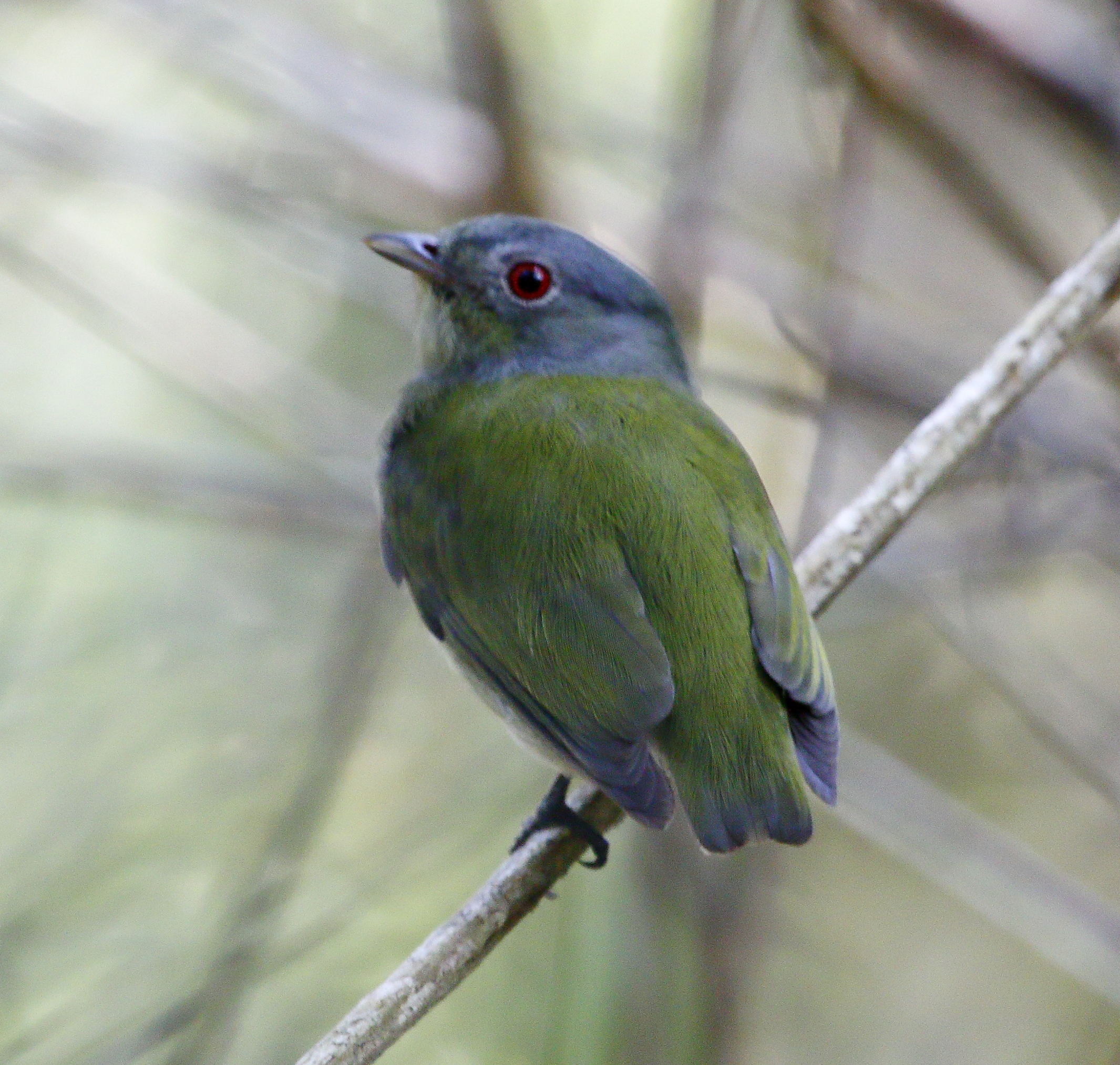 White-crowned manakin (female) at Aracruz - Espirito Santo - Brazil